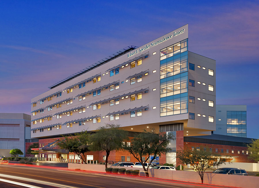 this is an exterior photograph of the neuroscience tower at barrow neurological institute